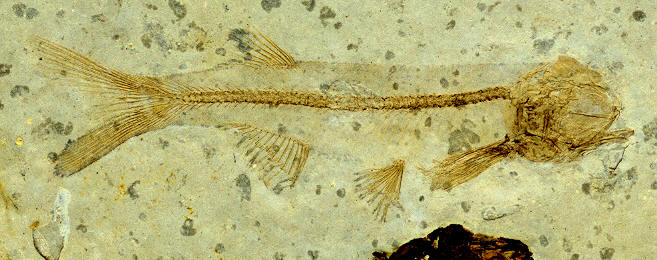 A single fossil Lycoptera davidi specimen 7.7cm long from the Liaoning province, China.